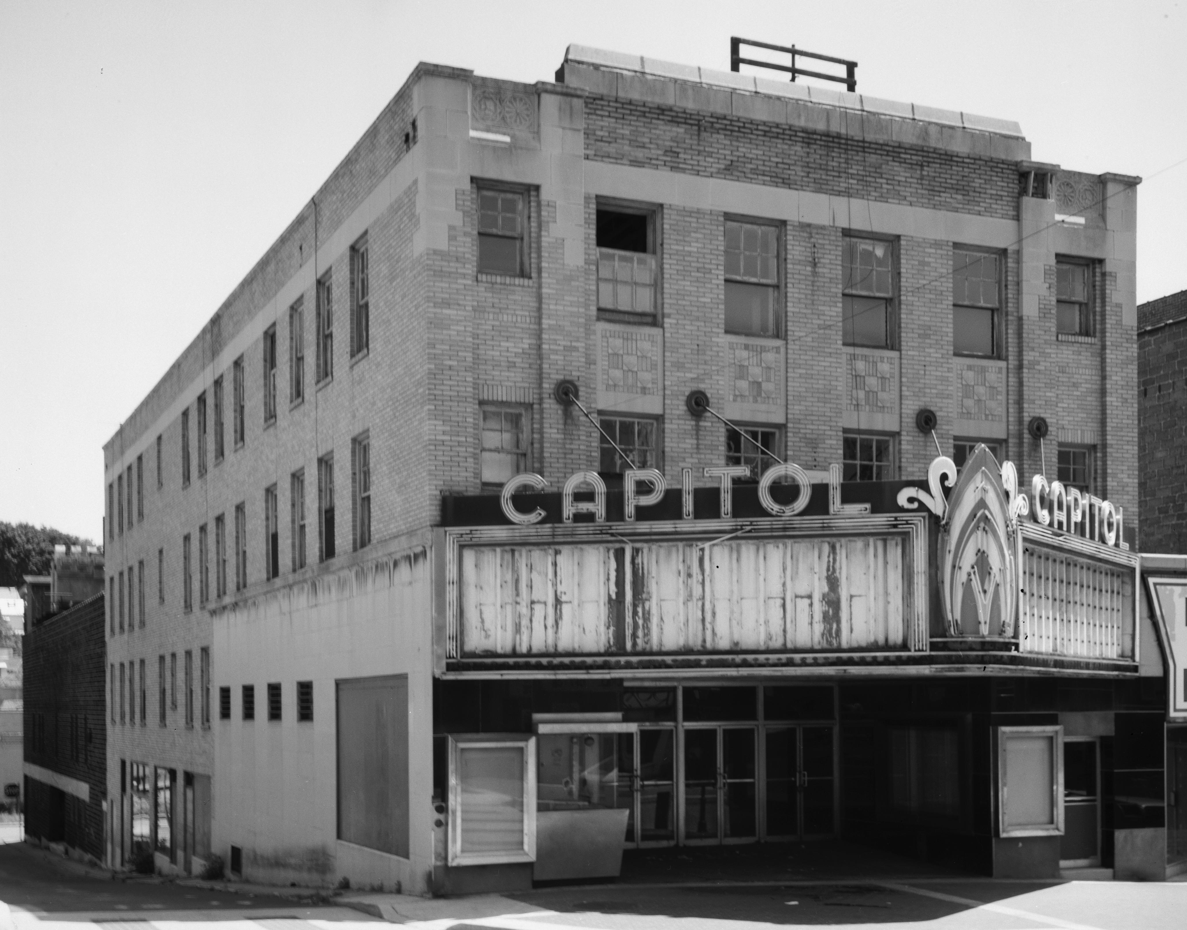 Front and northern side of the former Capitol Theatre, located at 218-220 North Centre Street in Pottsville, Pennsylvania, United States. Built in 1927, it is part of a historic district, the Pottsville Downtown Historic District, which is listed on the National Register of Historic Places.